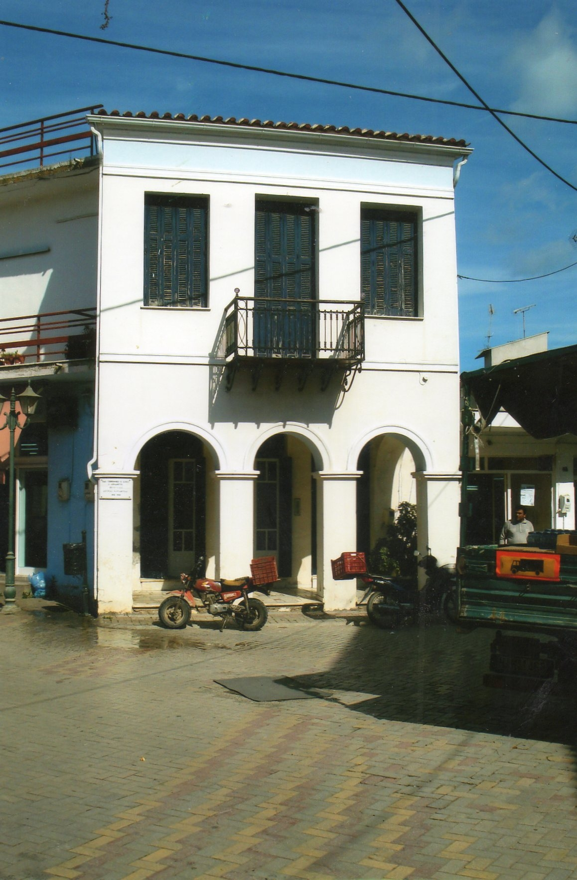 House of Andreas Karkavitsas at Lechaina, Ilia, Greece